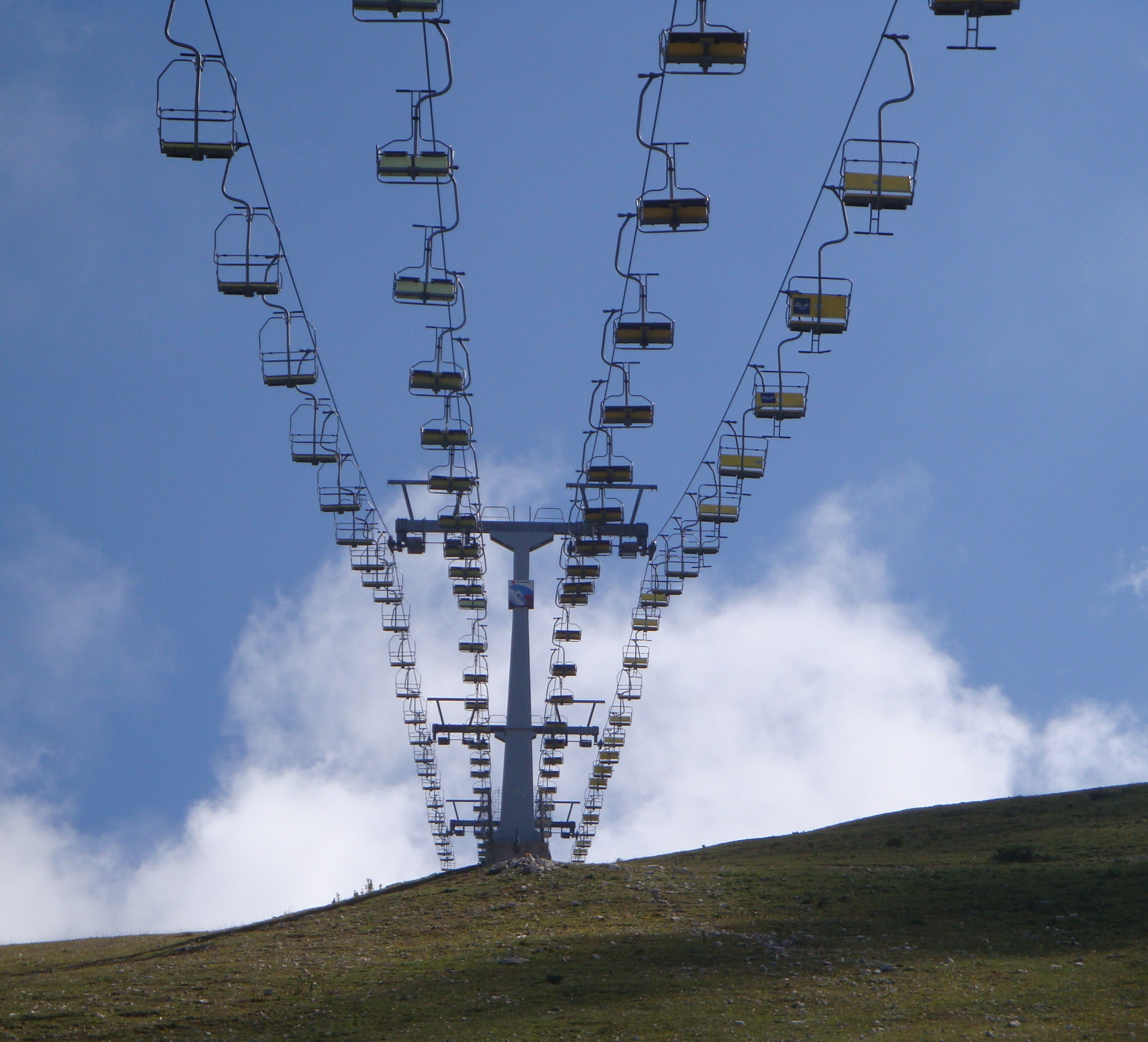 Cable car Krvavec, Slovenia